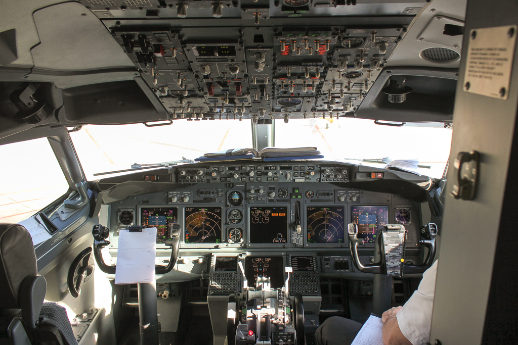 Cabin B737-8AS